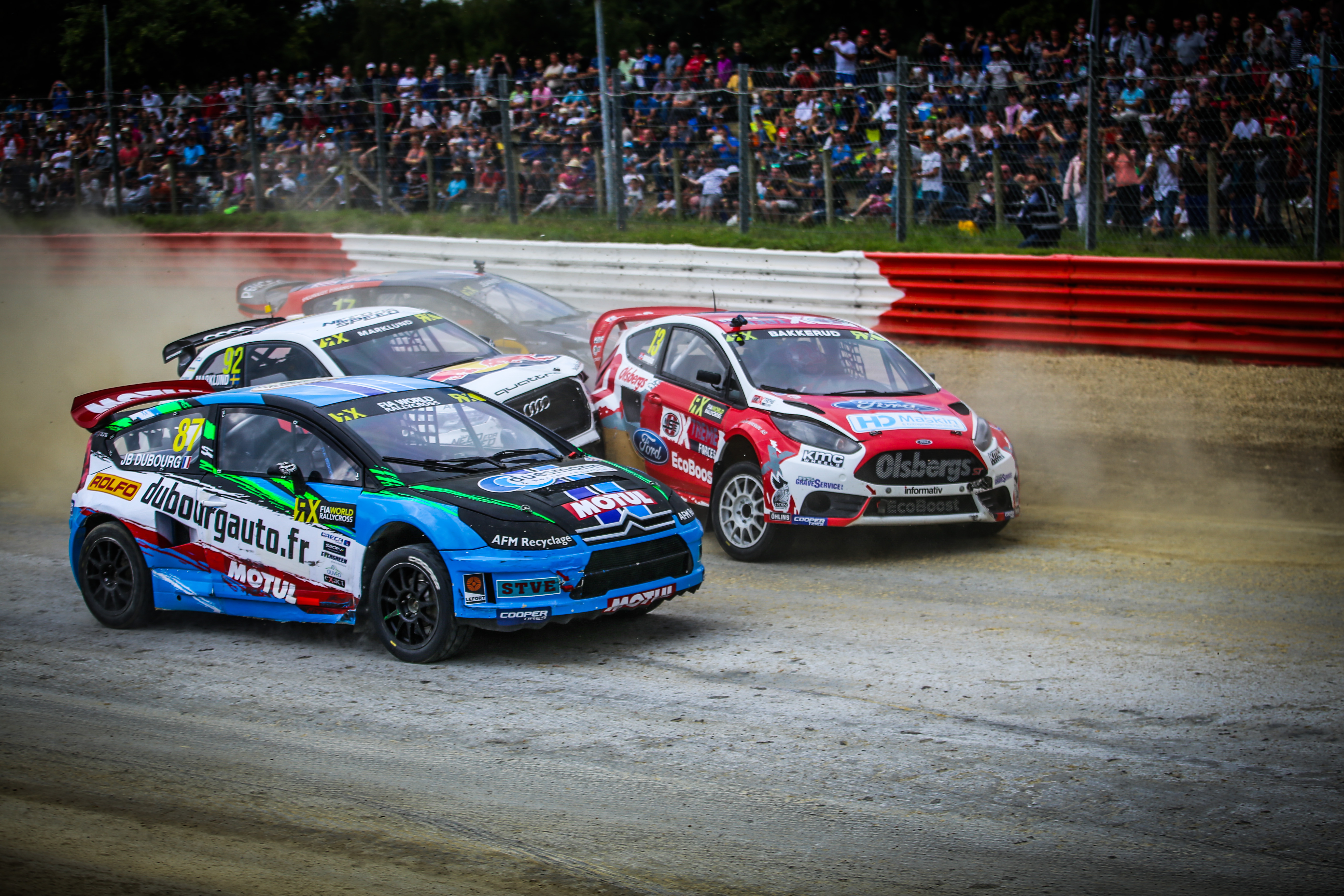 Jean-Baptiste Dubourg (87), Anton Marklund (92), Andreas Bakkerud (13) and Davy Jeanney (17) fight it out in semi-final #1 at Round 9 of the 2015 FIA World Rallycross Championship at Circuit de Lohéac, France.